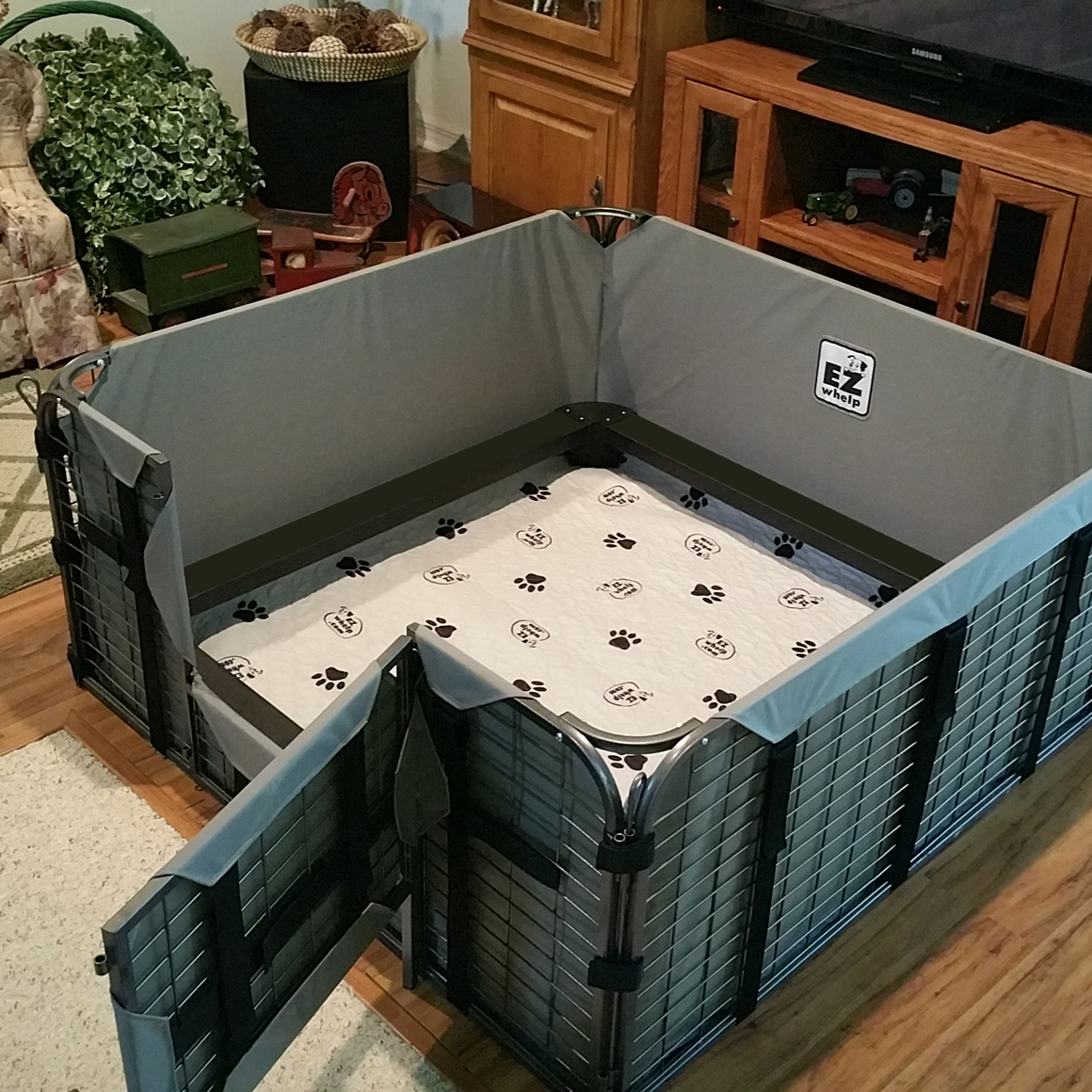 Whelping boxes are often modular in design, allowing the addition of extension rooms and accessories. Doors and rails are adjustable with multiple heights for the bitch and puppies. Internal pads for absorbency are easily washed and replaced for cleanliness.